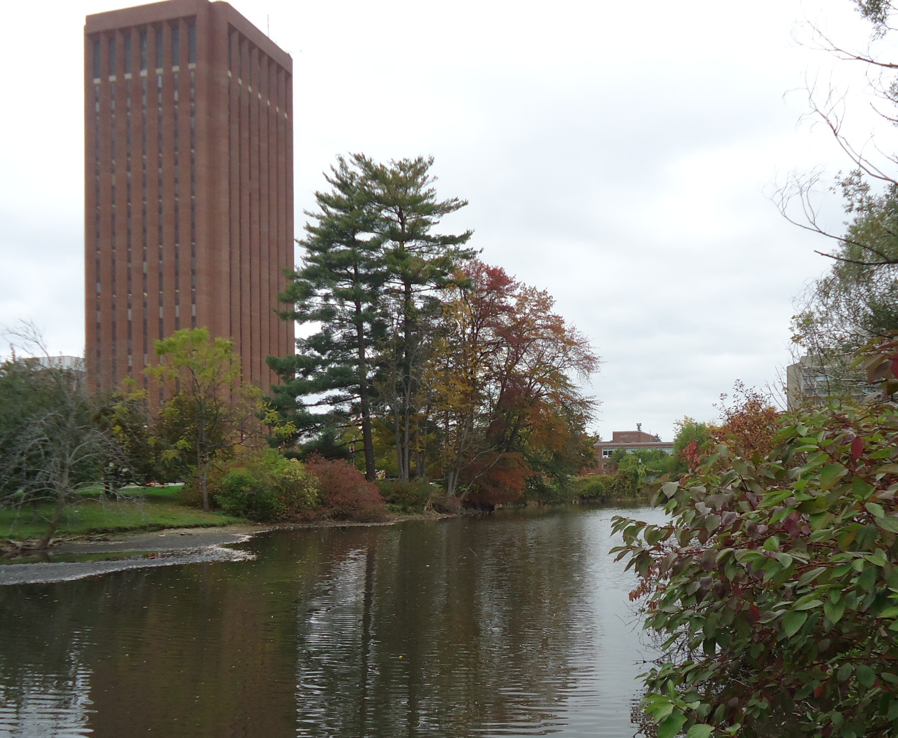 Campus scene with DuBois library tower (left) and lake, at the University of Massachusetts Amherst.